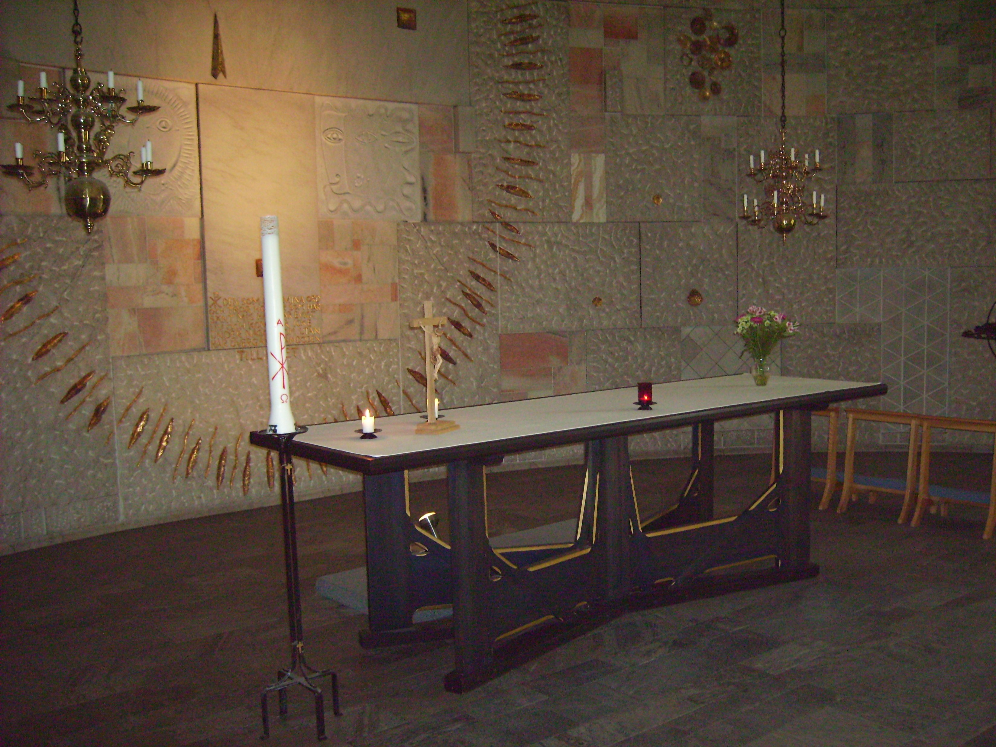 Photo by Harri Blomberg.